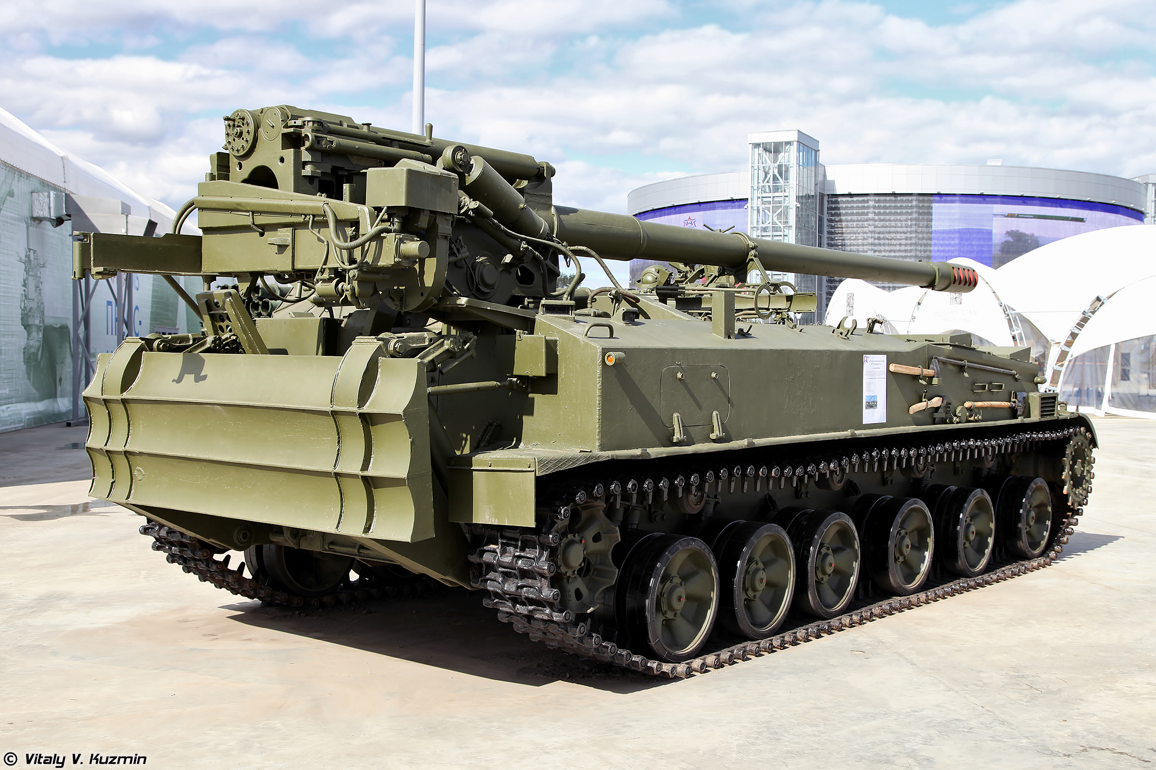 152mm self-propelled gun 2S5 Giatsint-S